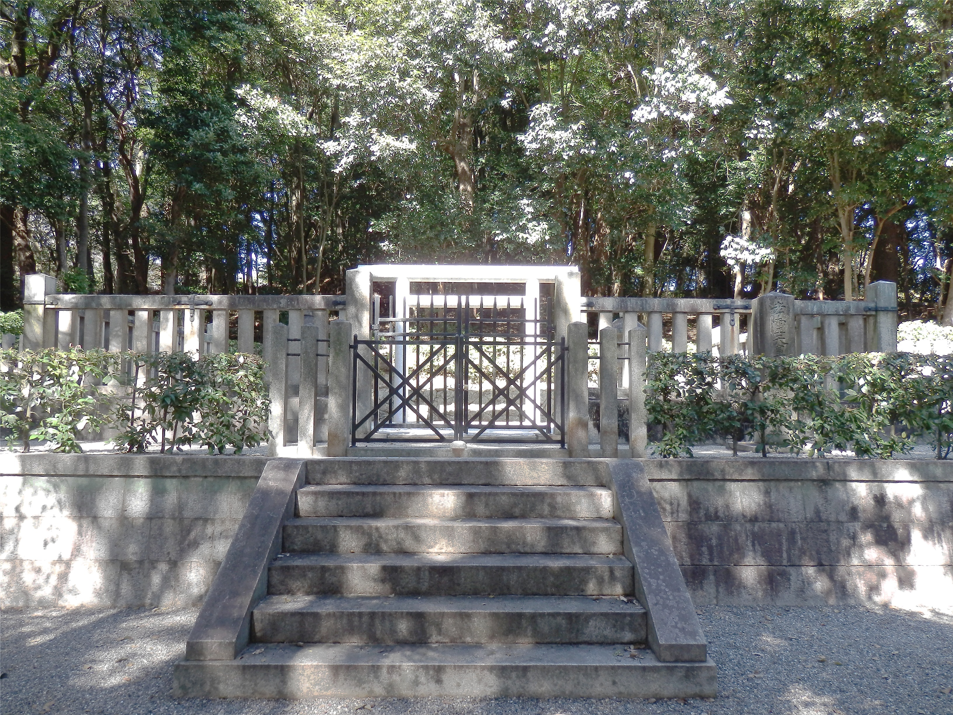 The Mausoleum of Emperor Kōrei, in Ōji, Nara Prefecture, Japan